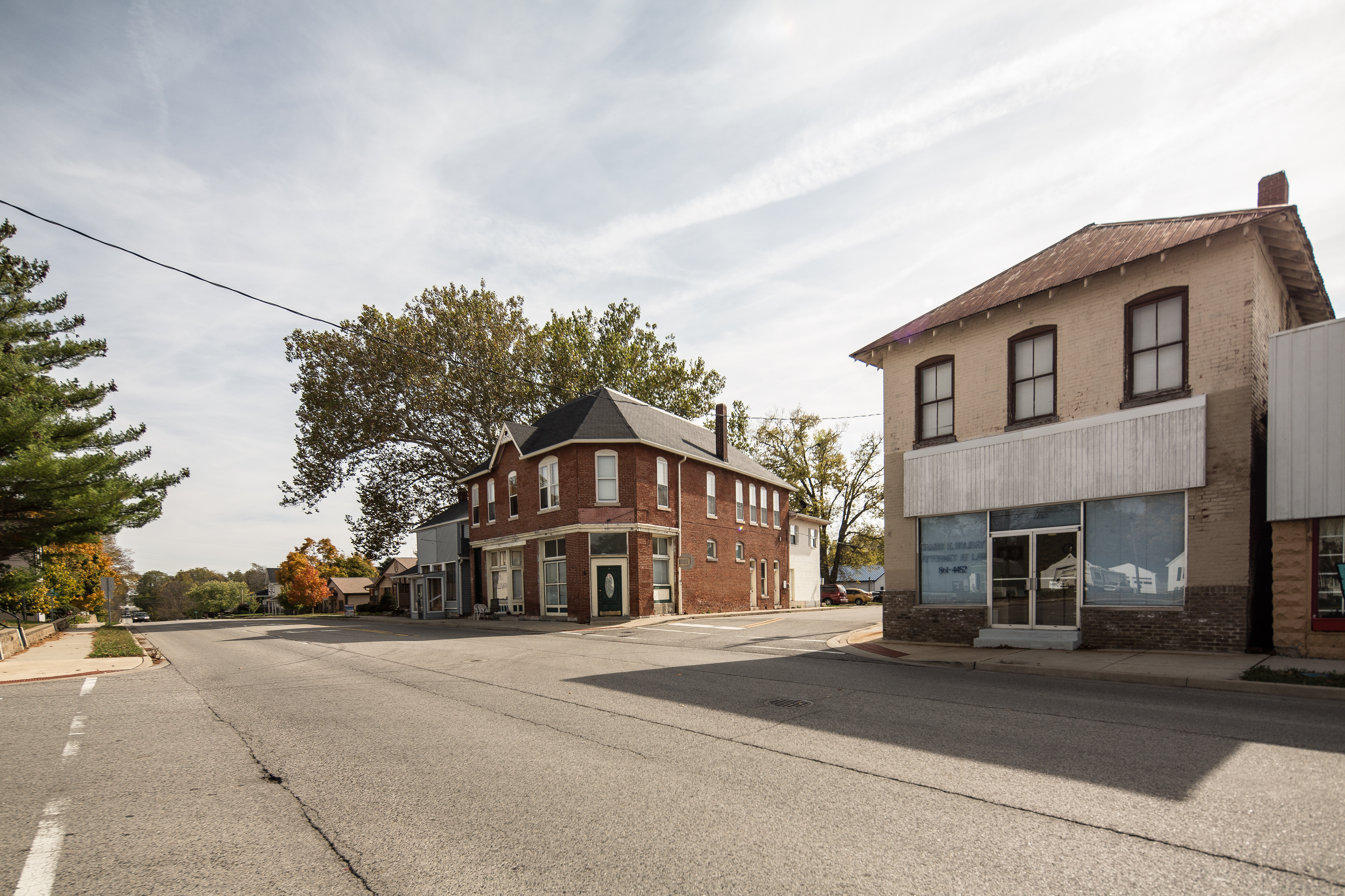 Photo from Small Town Indiana photo survey.